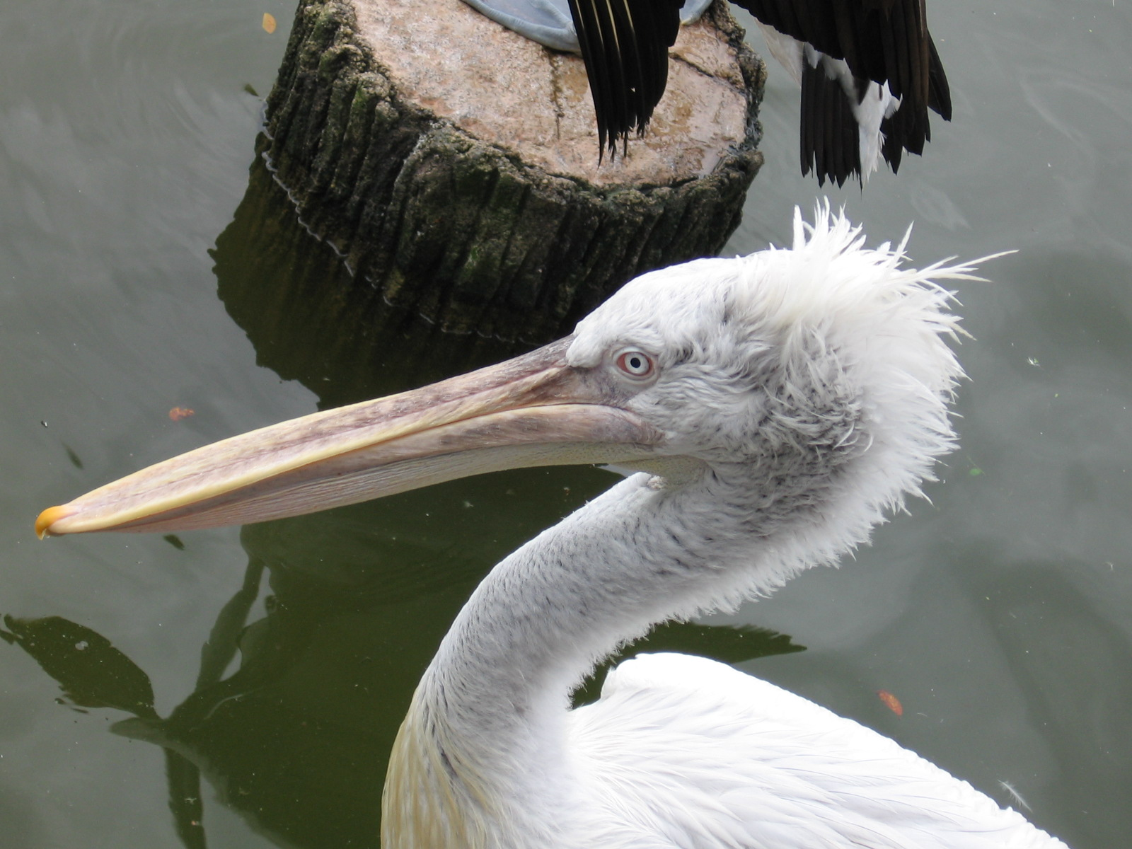 Dalamatian Pelican. Taken by myself in Oct 05.